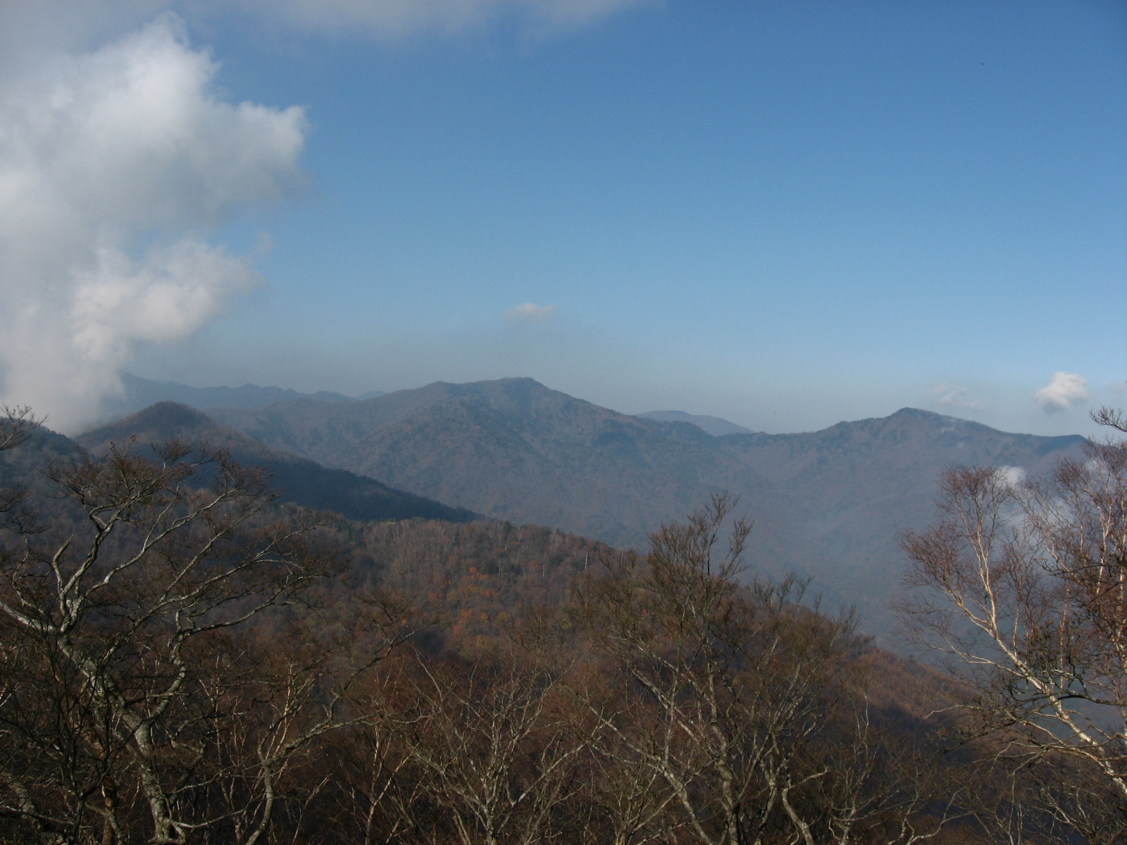 The Southeast side of Mount Kumotori and Mount Imokinodokke as seen from Mount Takanoshu.